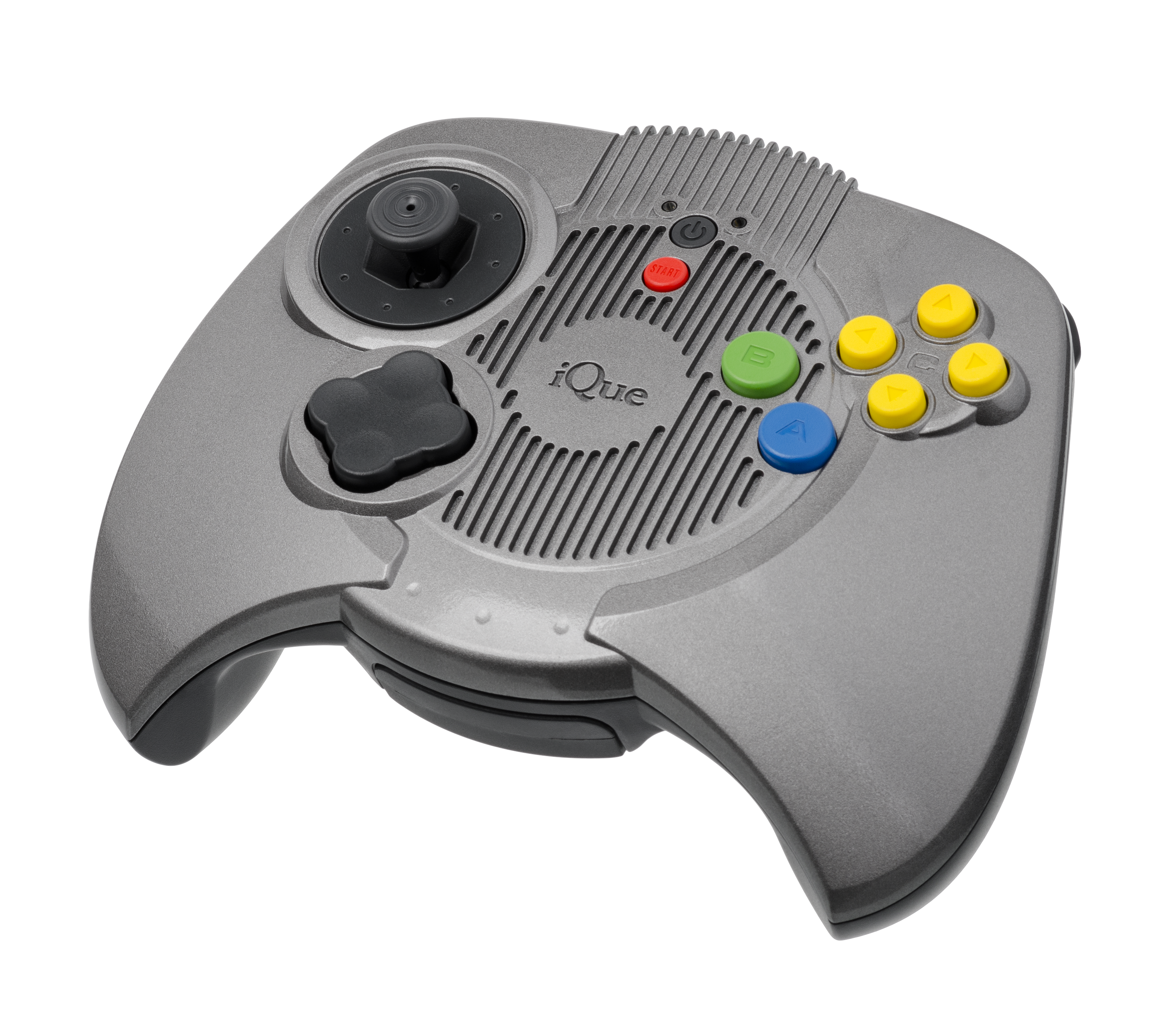 The iQue Player, an official all-in-one Nintendo 64 system released in China in 2003.